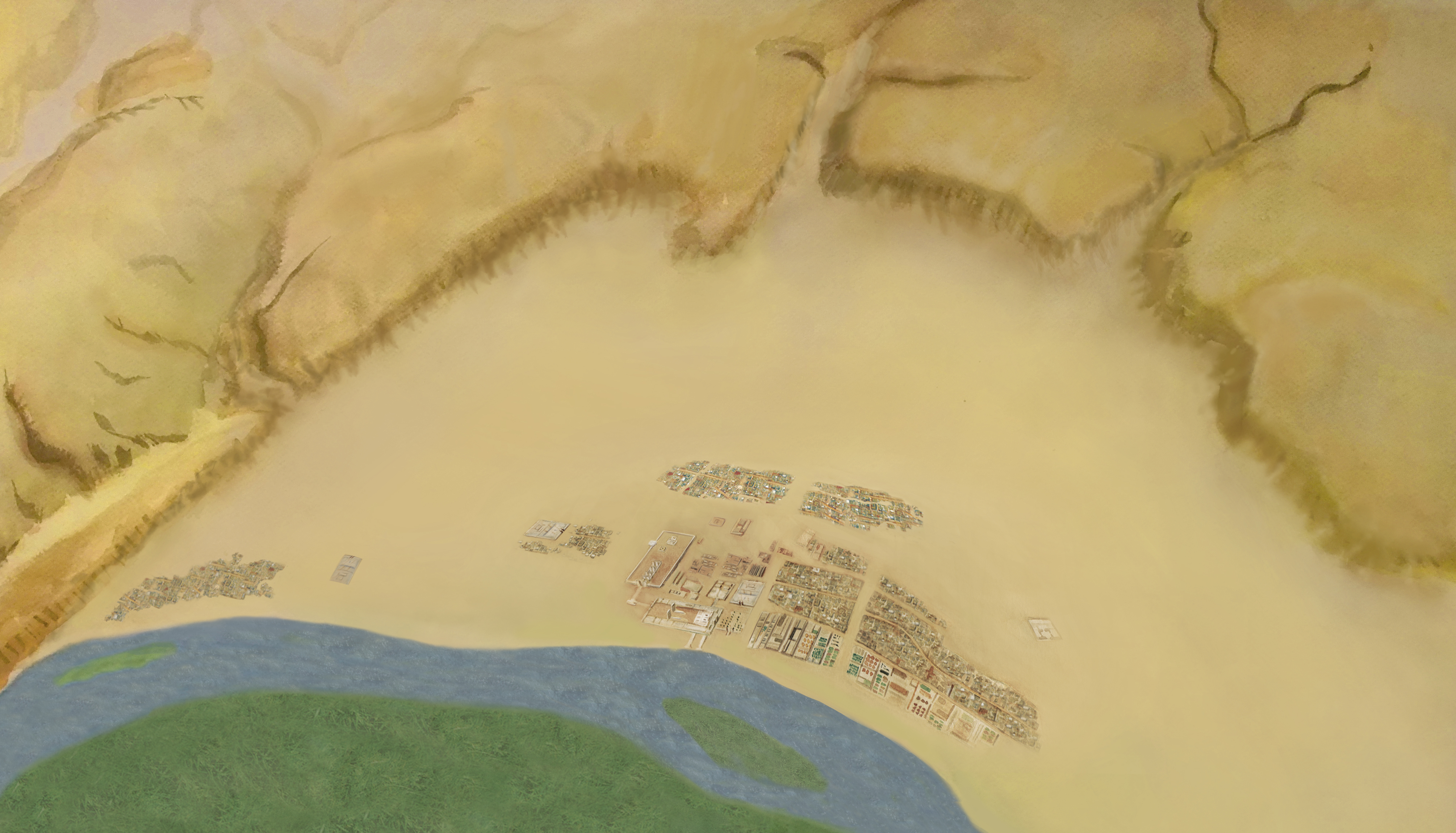 This image was provided to Wikimedia Commons as a contribution from an Art&Design School thanks of a collaboration between Escola d'Art del Treball and Amical Wikimedia.